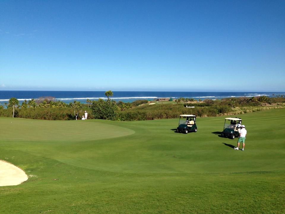 Fiji International at Natadola Golf Course